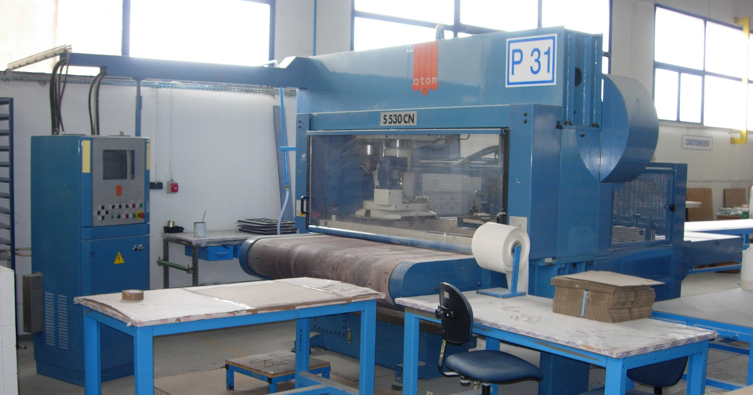 Computer numerical command (CNC) cutting press (Atom model S530CN). Maximum cutting force: 25 tonnes.